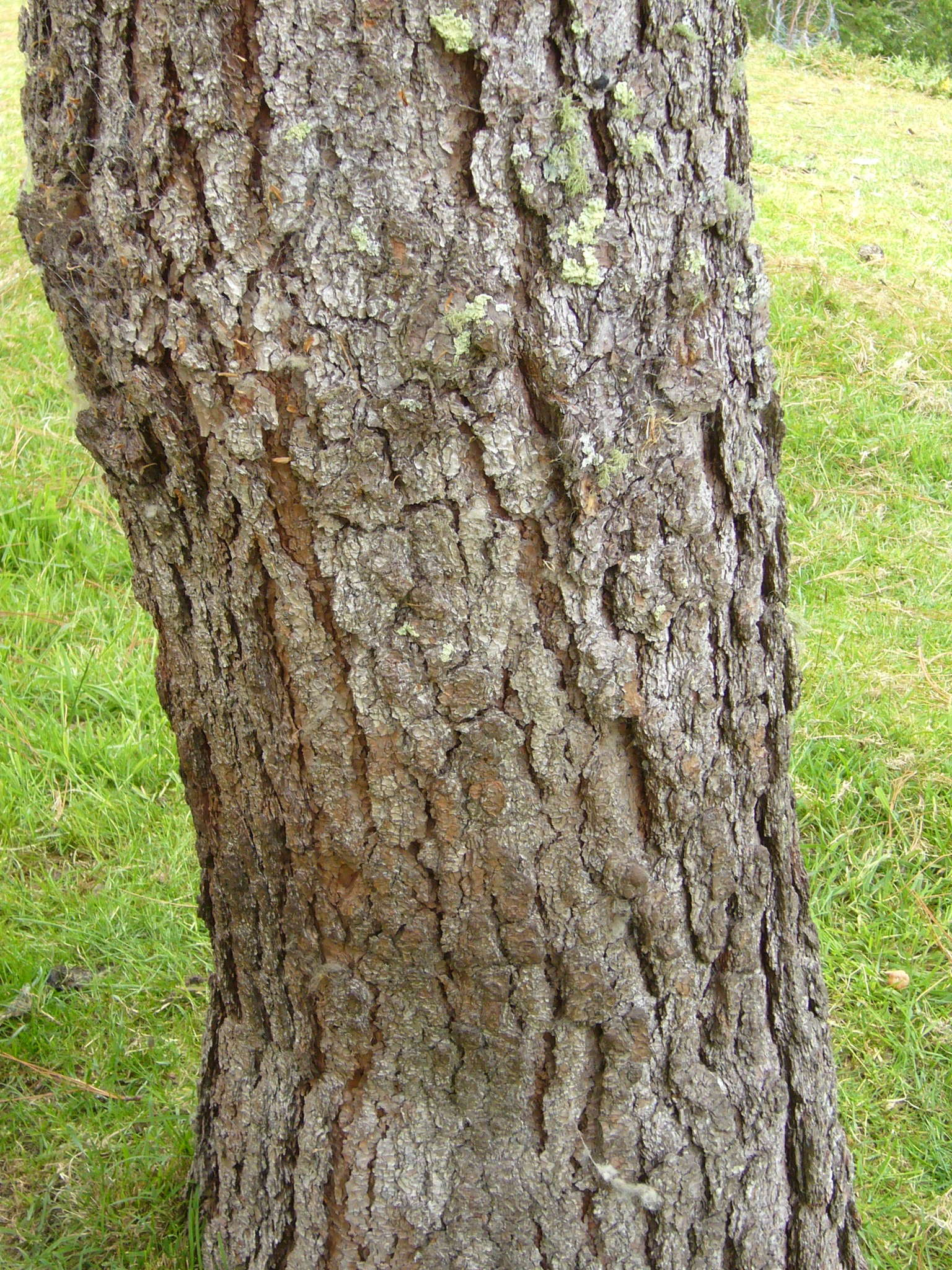 Bark of Pinus devoniana at Hackfalls Arboretum, Tiniroto, Gisborne (New Zealand)